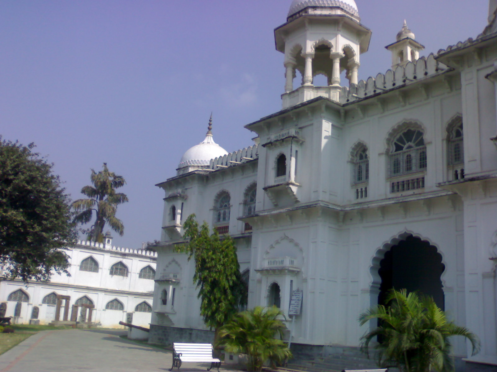 AP State Archeology Museum, at Public Gardens, Hyderabad.